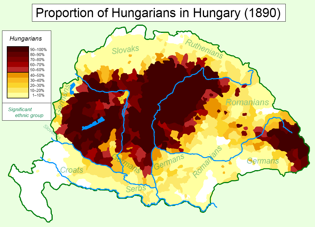 Hungarian population in Hungary according to the census from 1890, and other significant ethnic groups labeled. Source: Pallas Nagy Lexikon, 1897